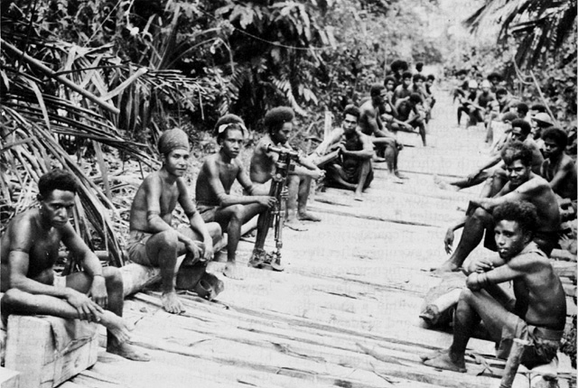 USA-P-Papua-p160 NATIVES WITH SUPPLIES AND AMMUNITION for the front lines taking a brief rest along a corduroy road. Milner